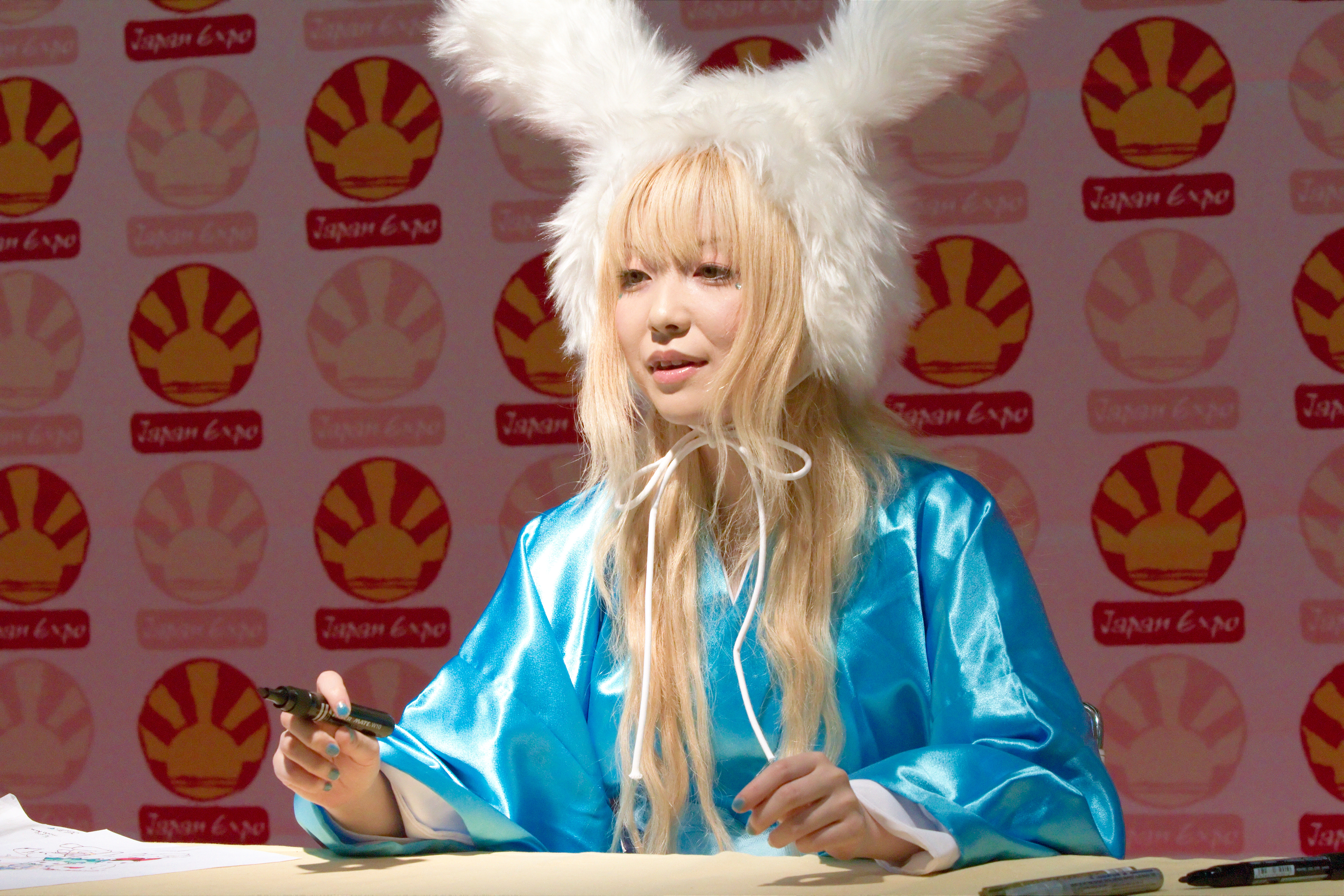 Autograph session with Moon Kana at Japan Expo 2010 (Paris, France).